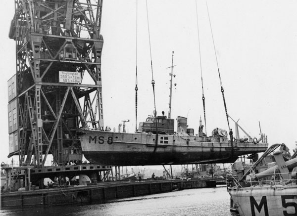 Salvaging of minesweeper MS 8 sunken at 0415 on 29 August 1943 (original photo in The Danish National Museum of Military History)